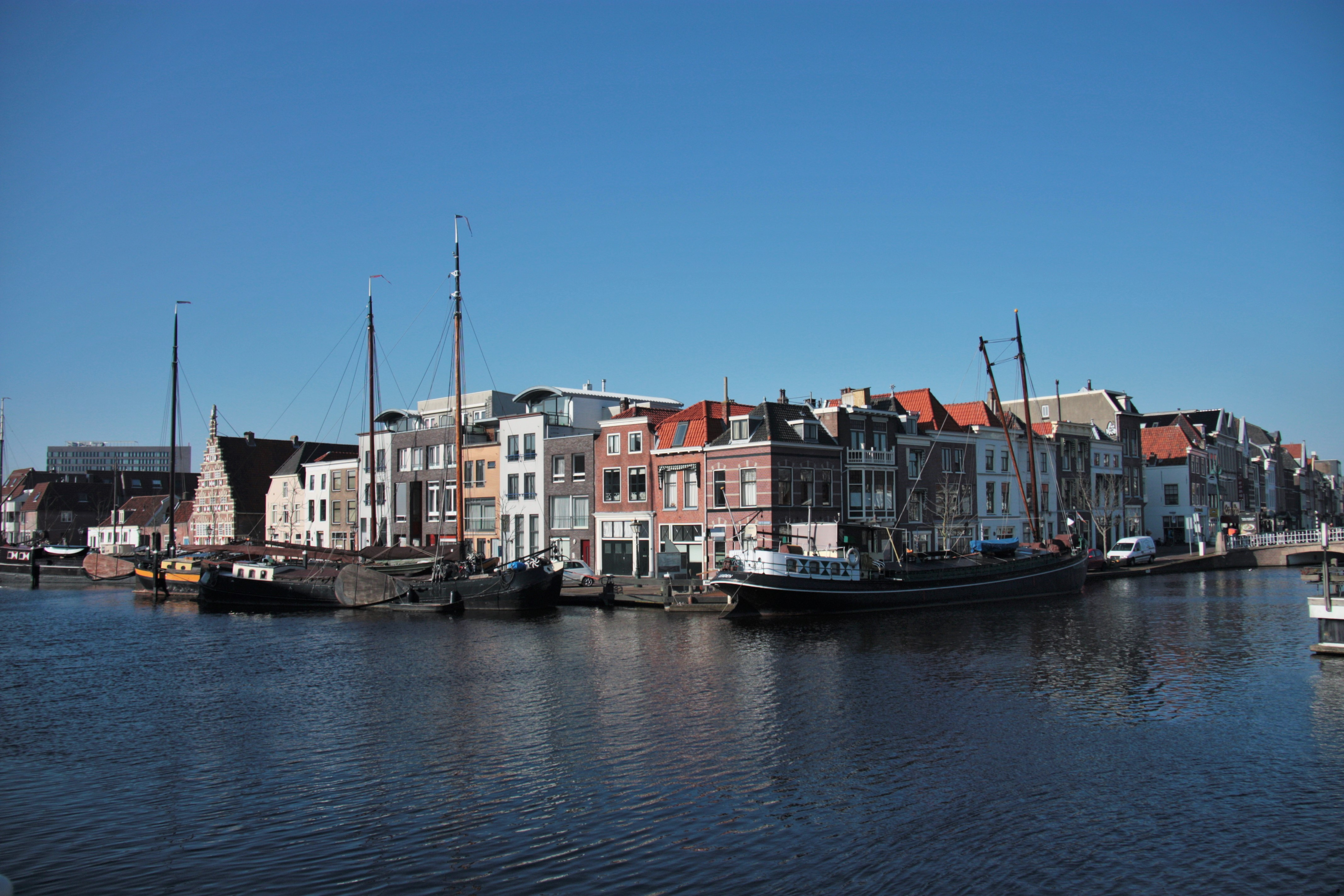 Kort Galgewater, Leiden, Netherlands